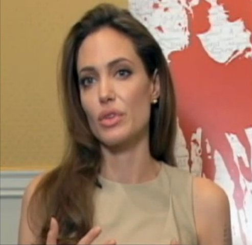 Angelina Jolie speaks to the Voice of America about the film "In The Land of Blood and Honey"